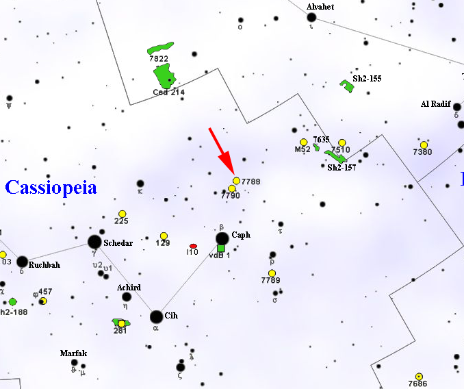 Map of NGC 7788